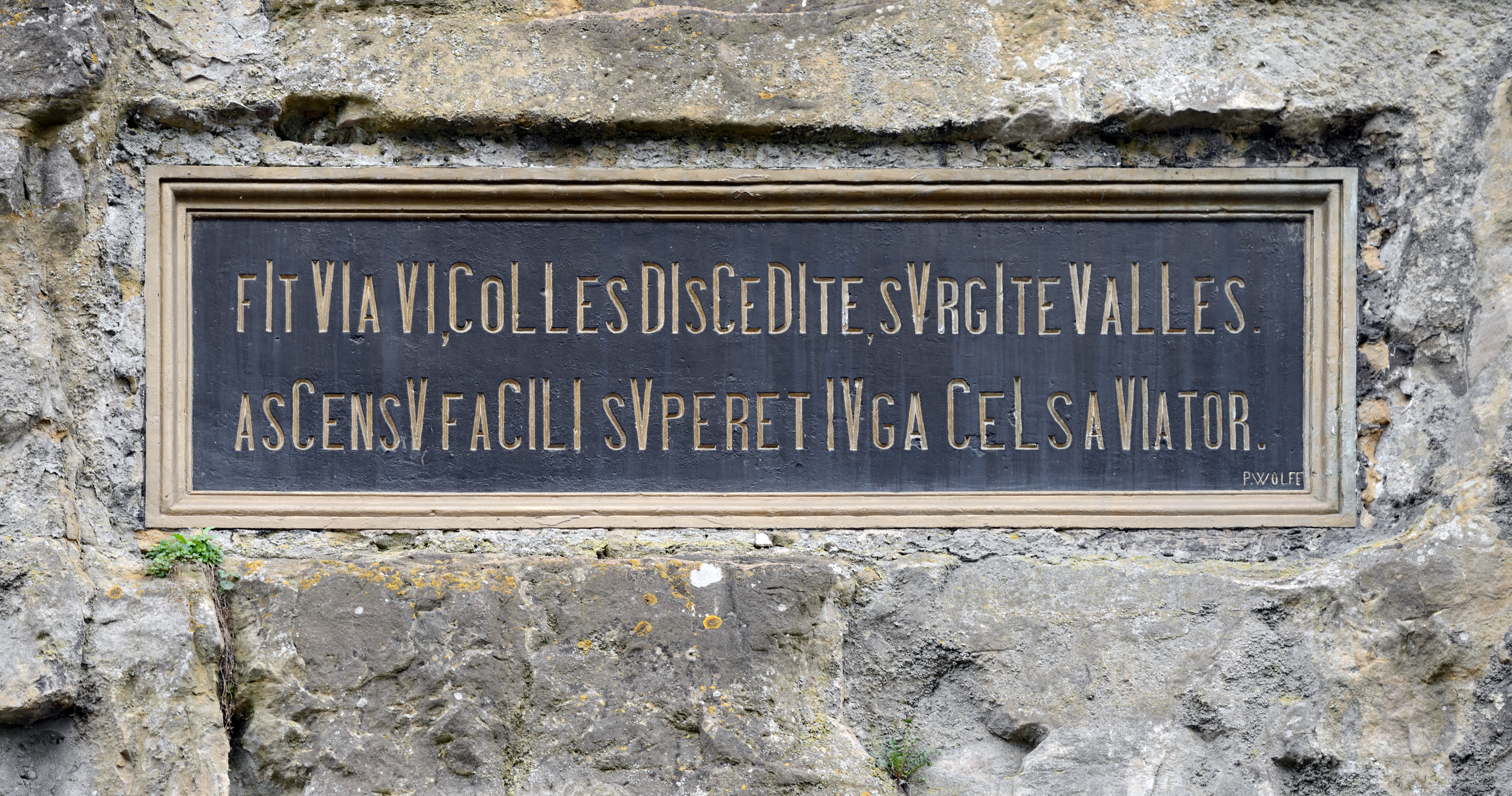 Luxembourg City, rue des Glacis:plaque with a Latin inscription commemorating the construction of the road in 1850. The chronogram indicates the year 1850.